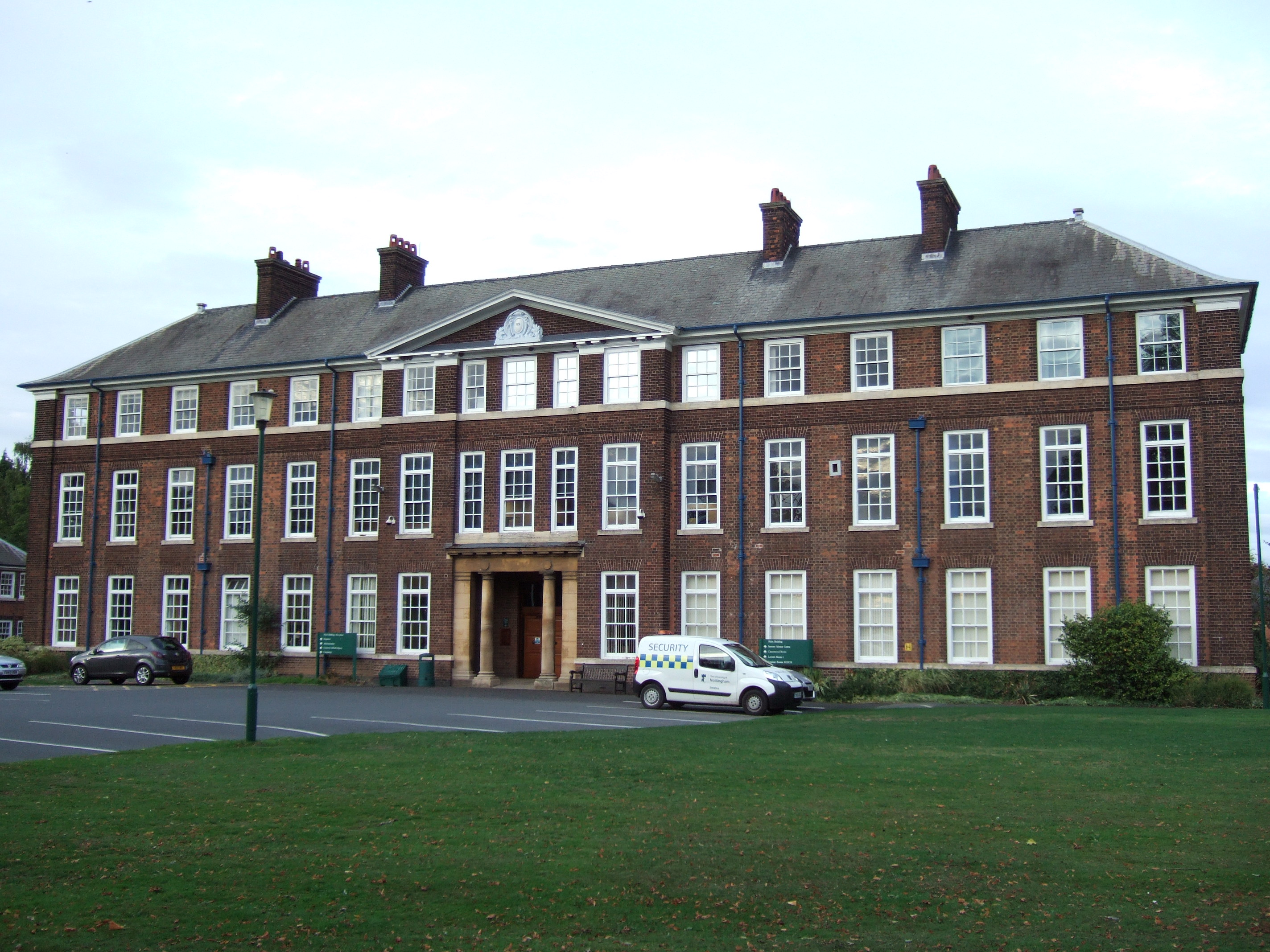 The main building (and oldest) on the Sutton Bonington University of Nottingham Campus, England, in 2011.